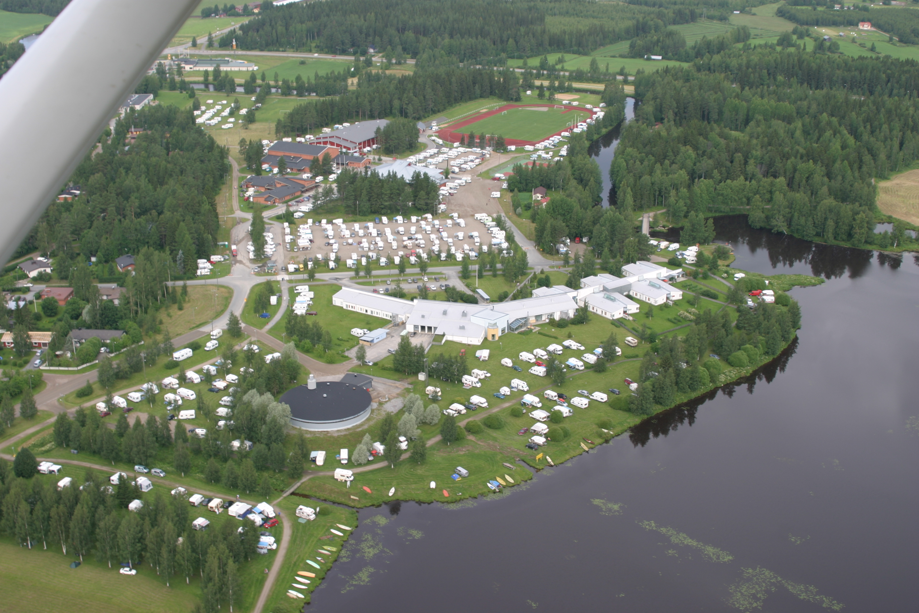 Travel trailers parket at the "Vihreät Niityt" ("Grean Fields") music festival in Kiuruvesi, Finland. An aerial view.